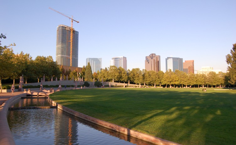 Description: View of the growing Bellevue, Washington skyline from the Downtown Park. Picture taken 9/12/2005 by contributor. Size: 752 × 465 pixels.